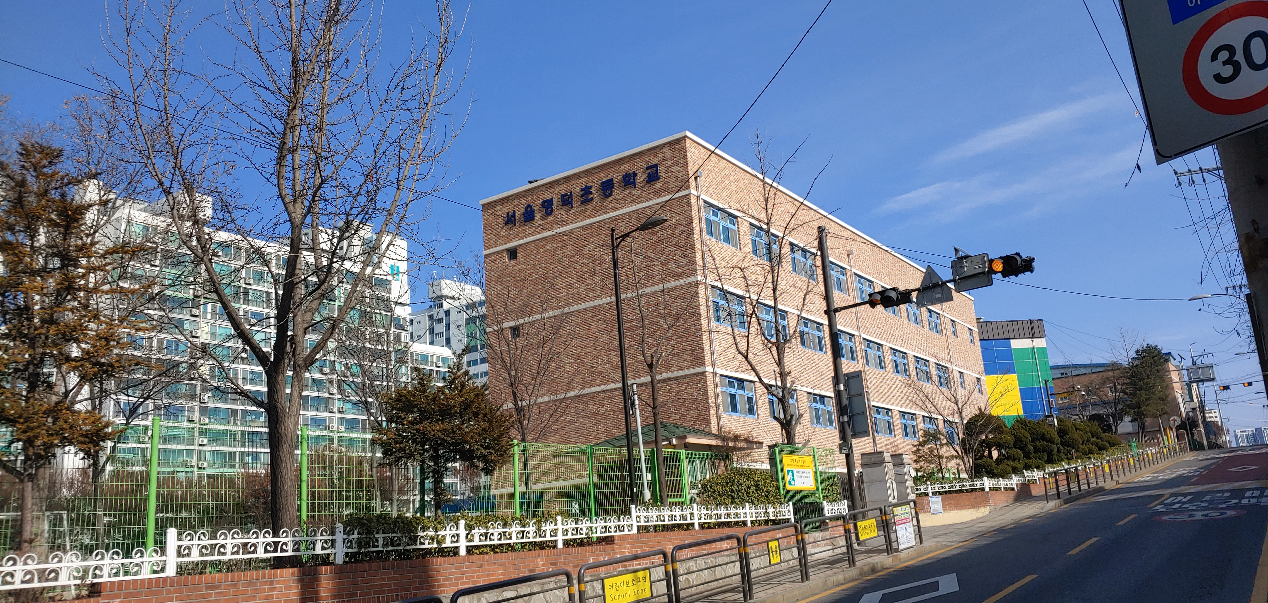 Myeongdoek Elementary School in Kangdong-gu, Seoul